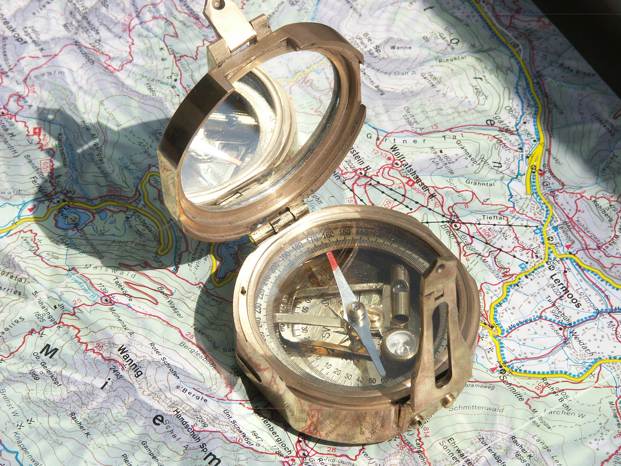 Geological Compass with inclinometer